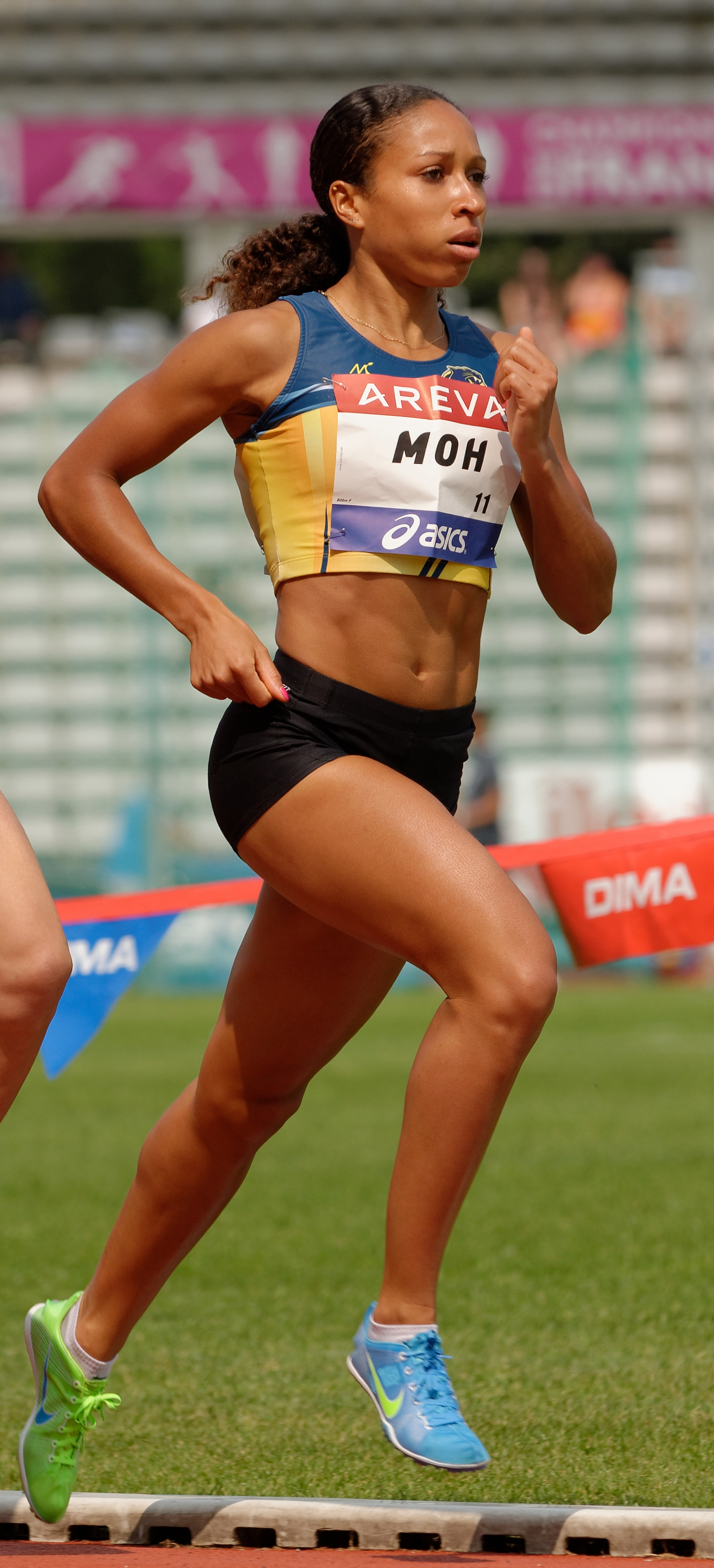 Clarisse Moh (R) and Manal El Bahraoui (L) lead the women's 800-metre race during the French Athletics Championships 2013 at Stade Charléty in Paris, 13 July 2013.